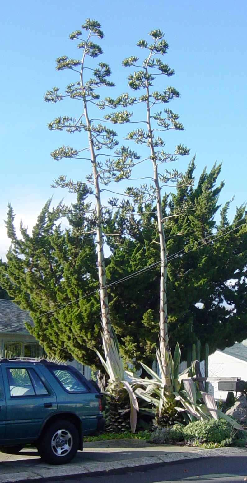 Century plants bloom in Lafayette, California. Image by User:Leonard G.